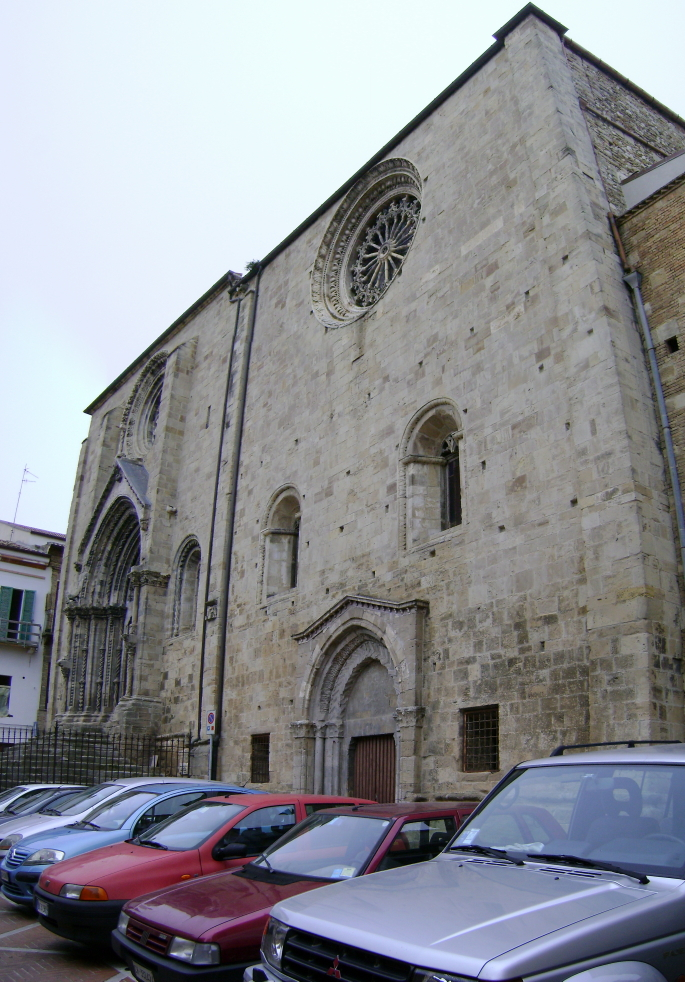 The facade of the church of Santa Maria Maggiore, Lanciano, province of Chieti, Abruzzo